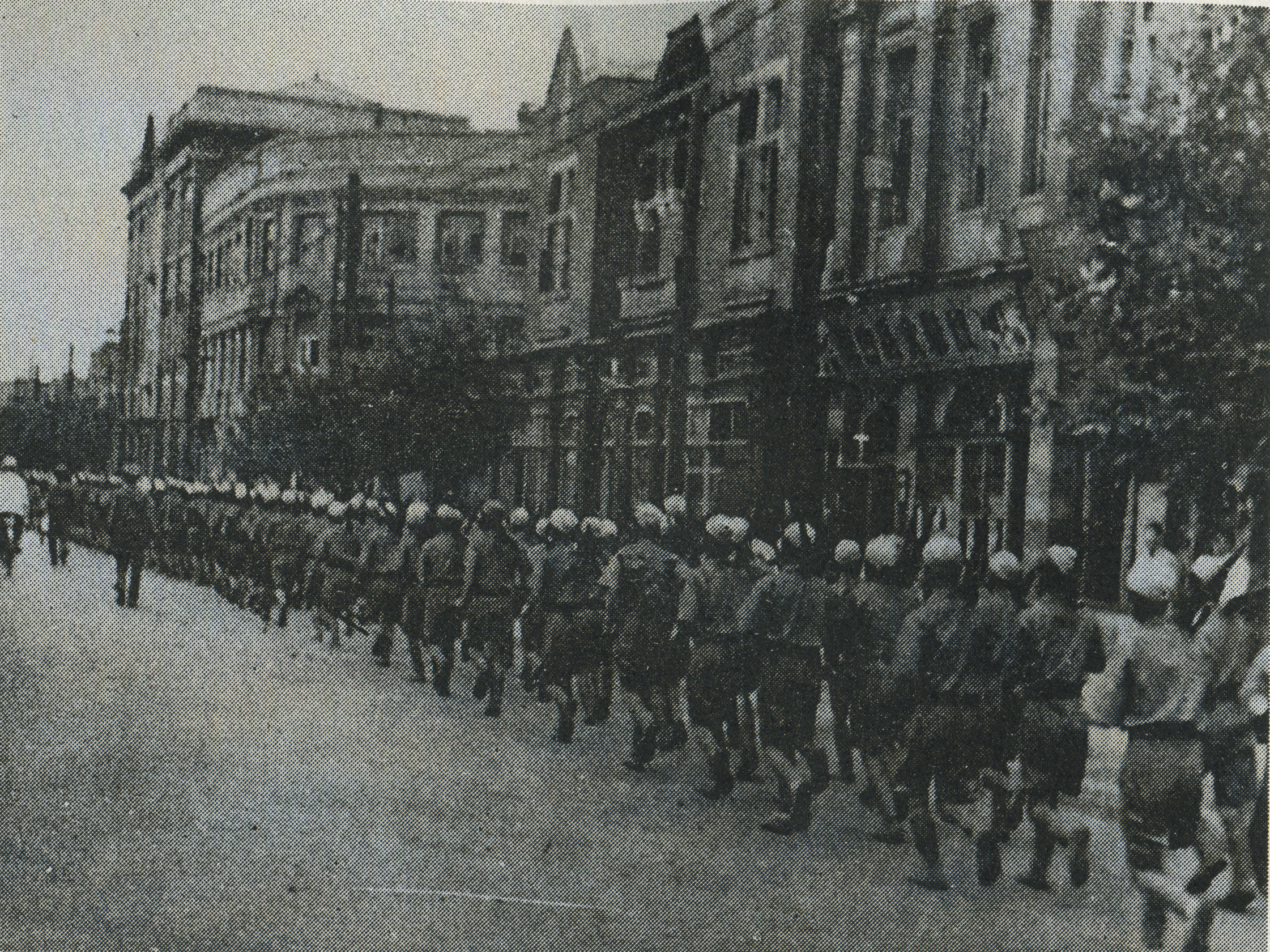 The civil war in China 1946